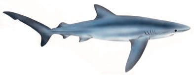 An image of the Blue shark.